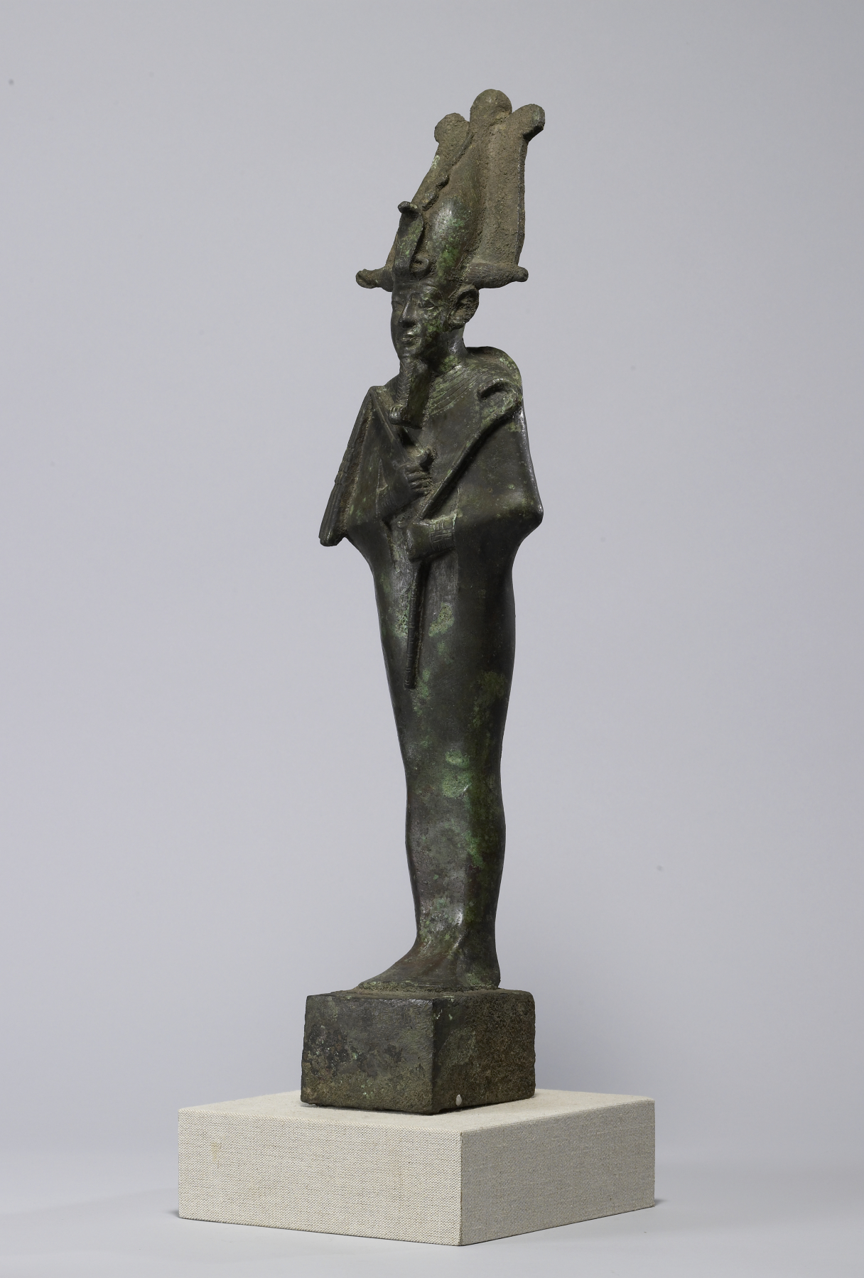 The god of resurrection, Osiris reigned supreme in the underworld. He combined the elements of death, regeneration, and fertility in his mythology. He was also connected with crops and the annual floods, Osiris took on funerary associations when he was linked with other underworld gods as his cult spread across the land. This combination of fertility and funerary aspects made Osiris the principal god of the dead. One of his titles is "chief of the westerners," the west being the domain of the dead. Here, the god is shown in his standard iconography, attired in a mummiform garment, his hands projecting from the wrappings to hold the royal insignia of crook and flail. He wears the elaborate atef crown-composed of the tall "white crown," double plumes, ram horns, and uraeus (sacred cobra)-as well as a ceremonial braided beard. This statue is of extraordinary size.